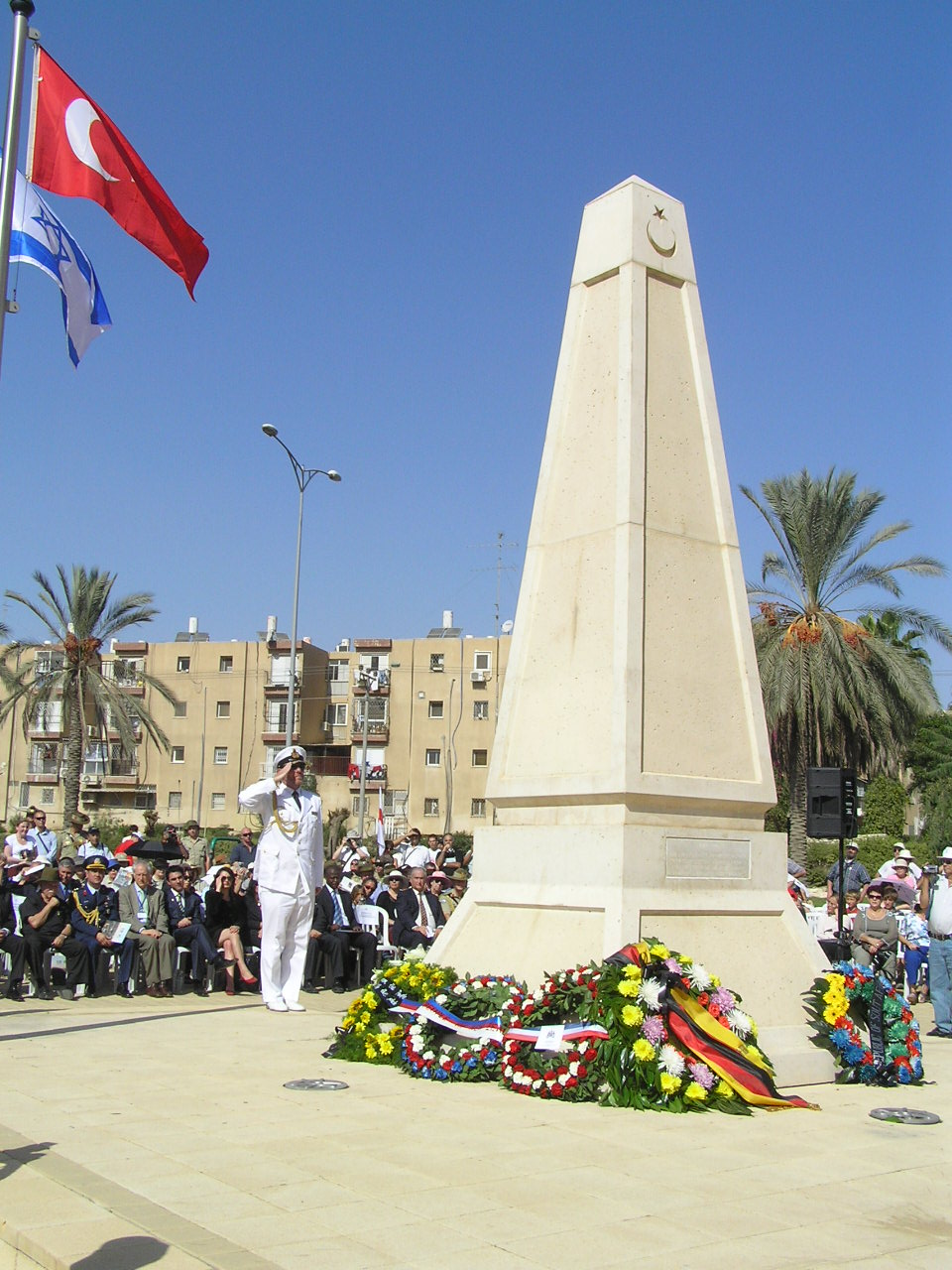 90th anniversary of the WW1 Battle of Beersheba: Ceremony at memorial for the fallen Ottoman soldiers